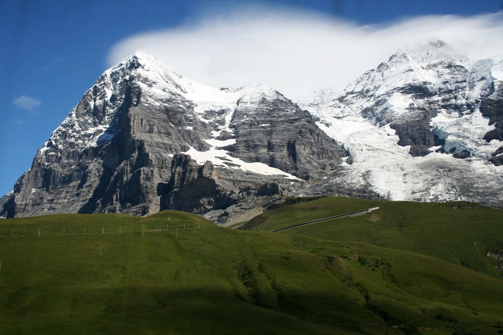 From Kleine Scheidegg